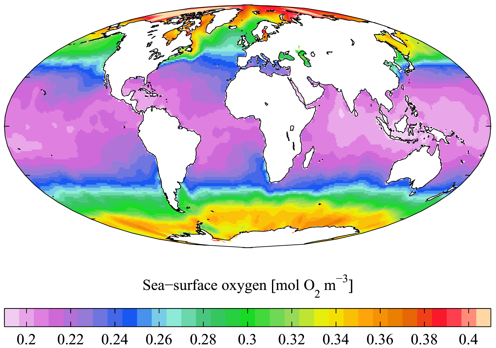 Annual mean sea surface dissolved oxygen from the World Ocean Atlas 2005. Dissolved oxygen here is in mmol O2 m-3. It is plotted here using a Mollweide projection (using MATLAB and the M_Map package).